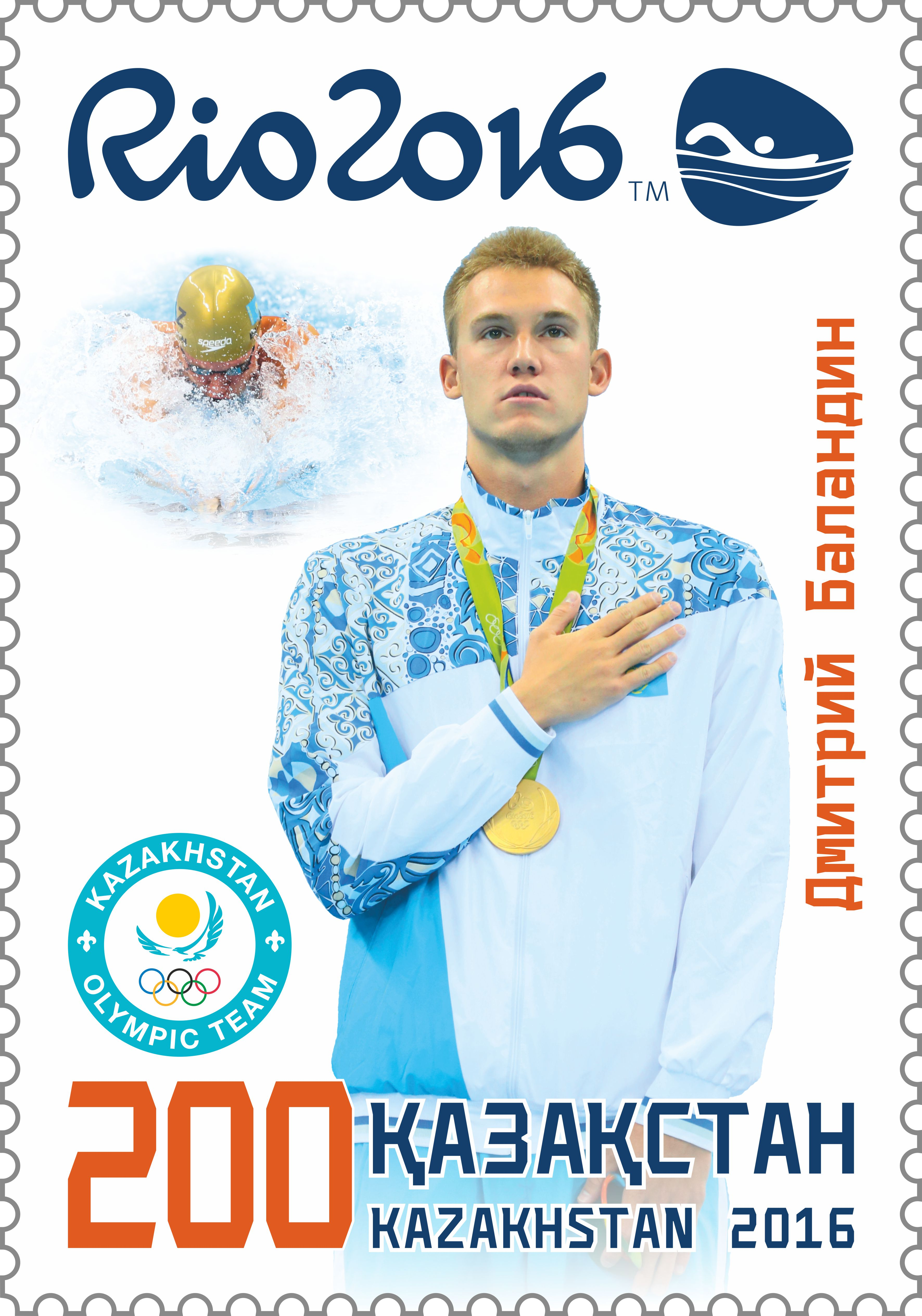 1004-1011. Sports. The XXXI Olympic Games in Rio de Janeiro.